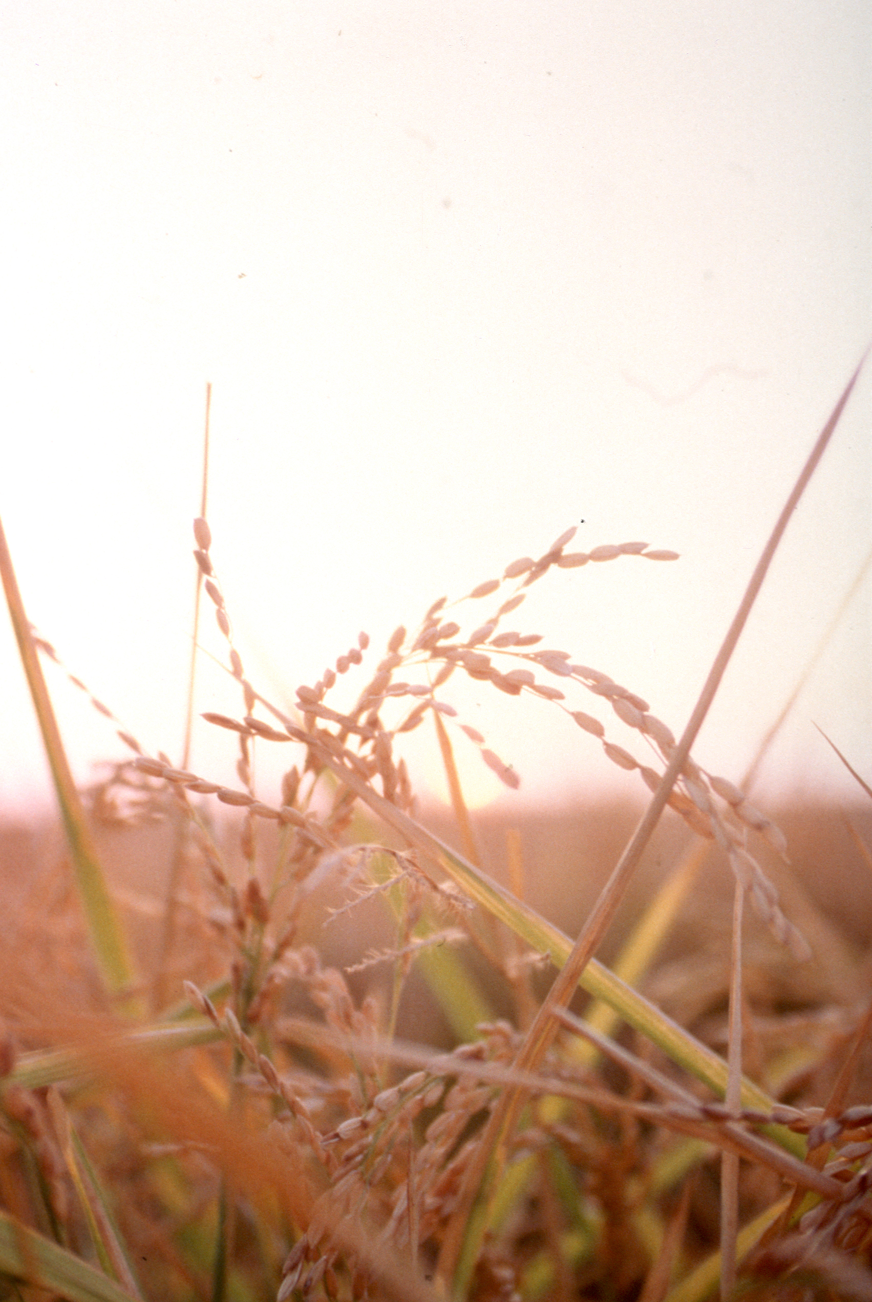 Head of rice in a field.